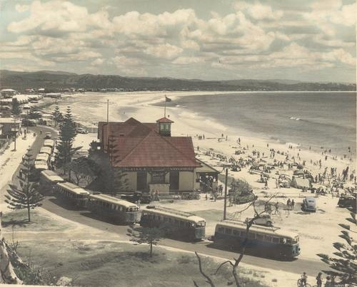 Kirra Surf Life Saving Club, Kirra Beach, ca. 1946. Signs on the surf life saving club building read: Nestles Chocolates; Kirra Cafe: Afternoon Tea, Cold Luncheon